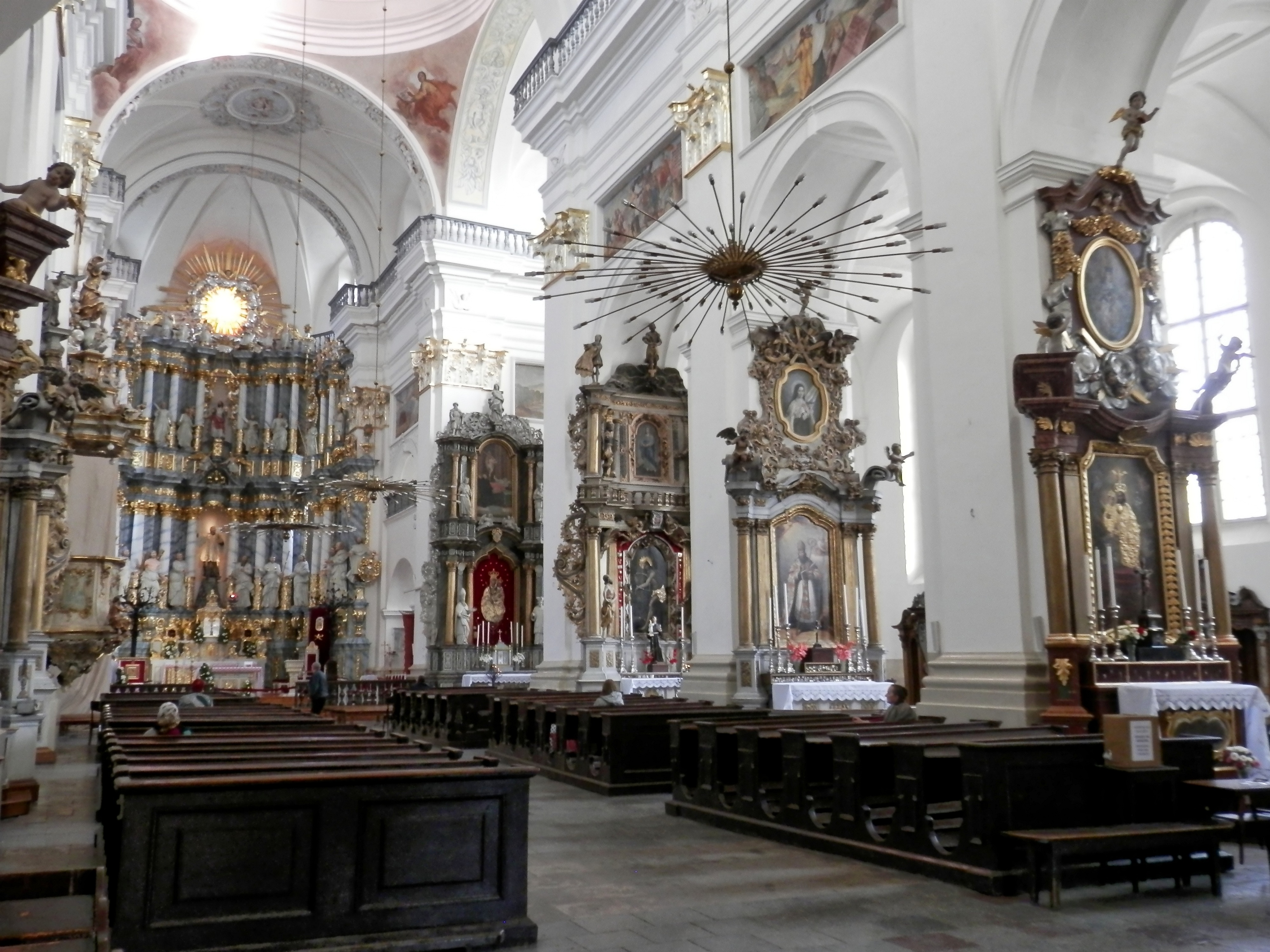 St. Francis Xavier Cathedral, Grodno